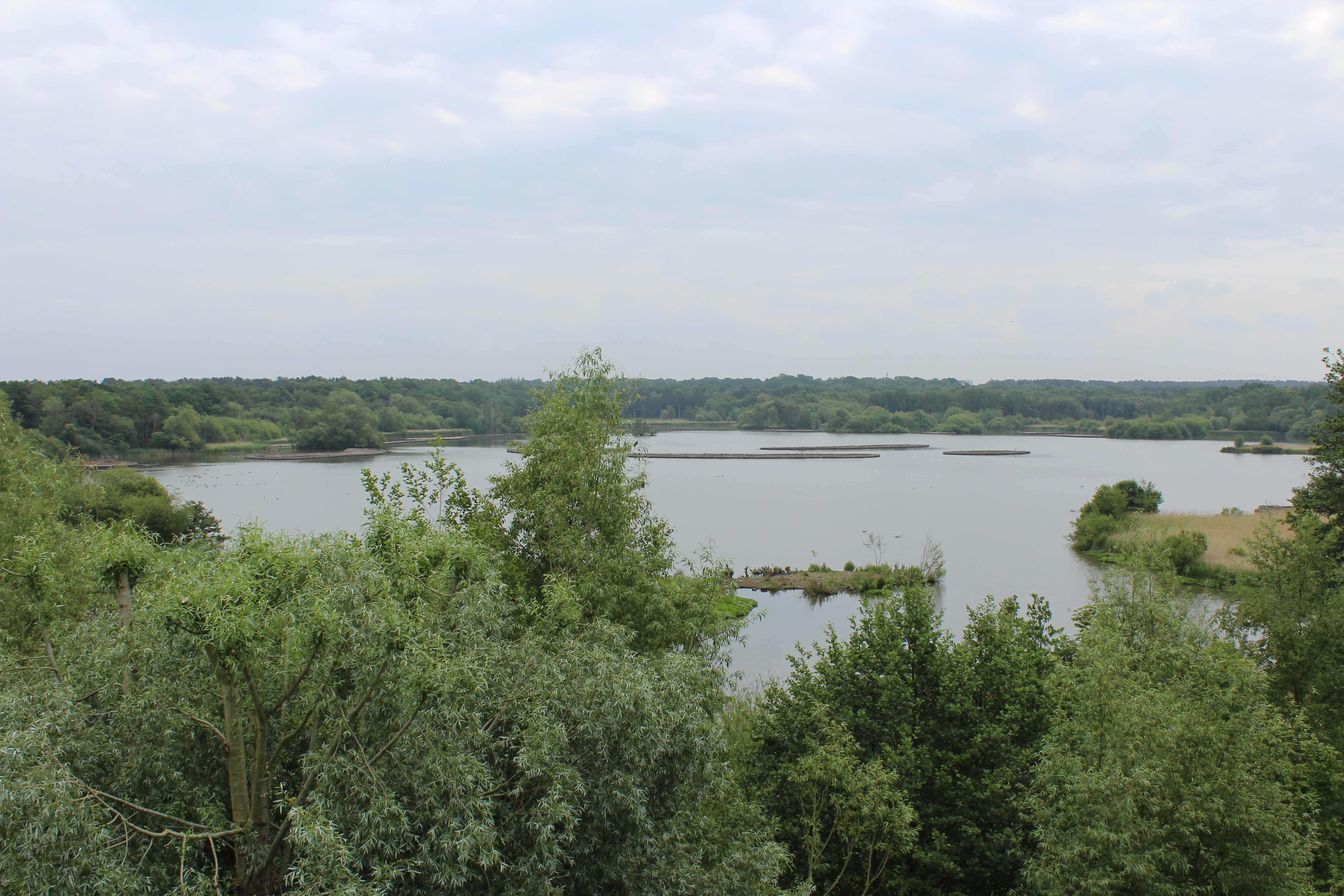 A view over Fleet pond - railway passes parallel to the left-hand edge of the picture, about 50 metres behind photographer